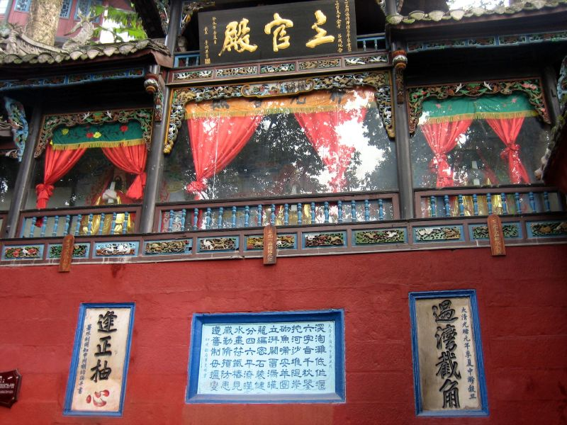 Sanguan Hall, built for the worship of Emperor Ziwei (sky), Emperor Qingxu (mountains and lands), and Emperor Dongyin (waters).